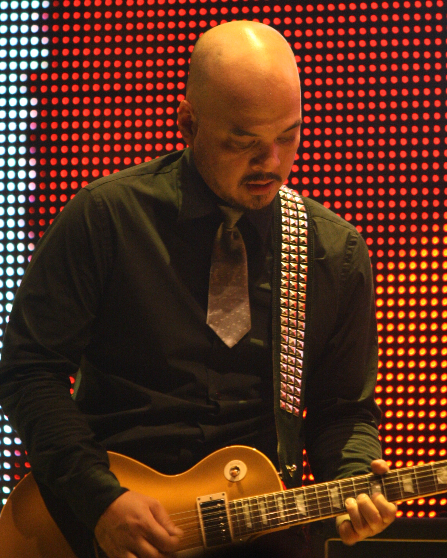 Joey Santiago from Pixies in Washington DC.